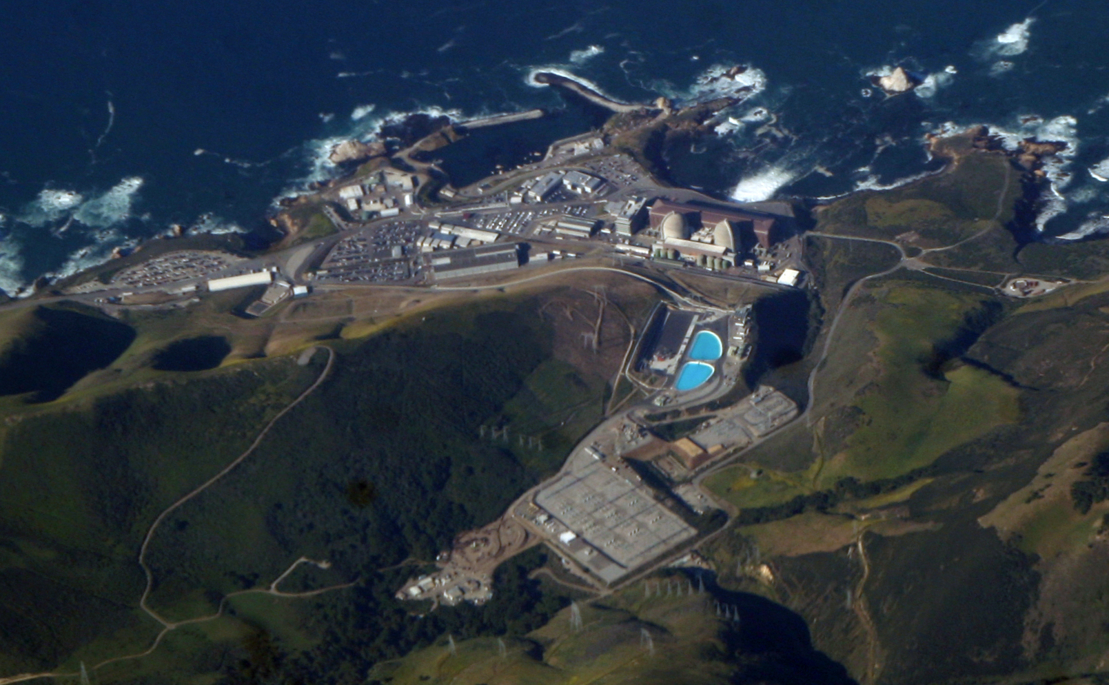 Diablo Canyon Power Plant, on the coast of California.